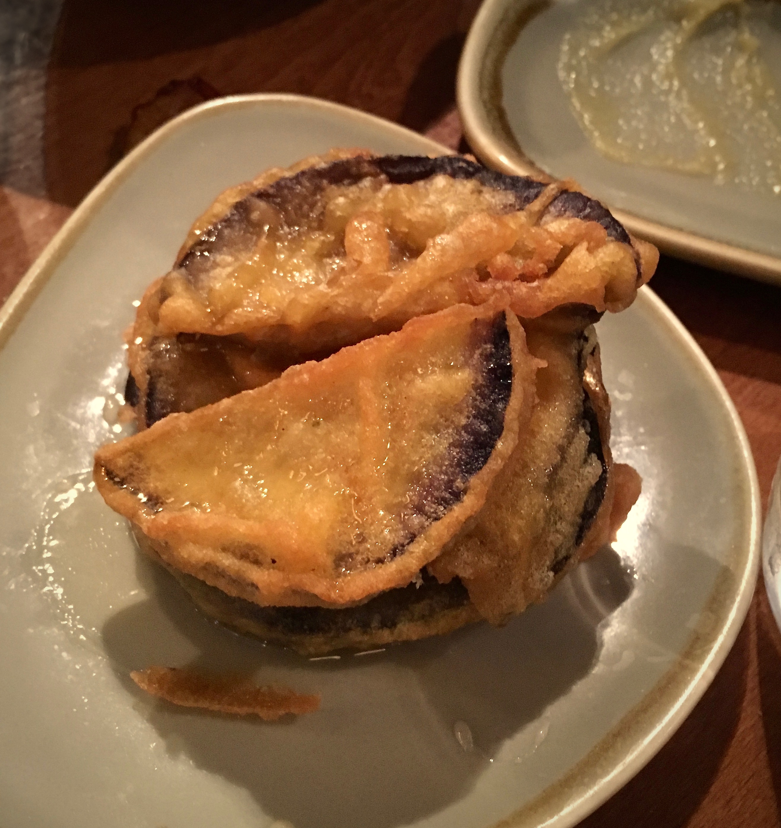 Aubergine crisps with honey (Berenjenas con miel) at restaurant "Tapa" in Edinburgh.